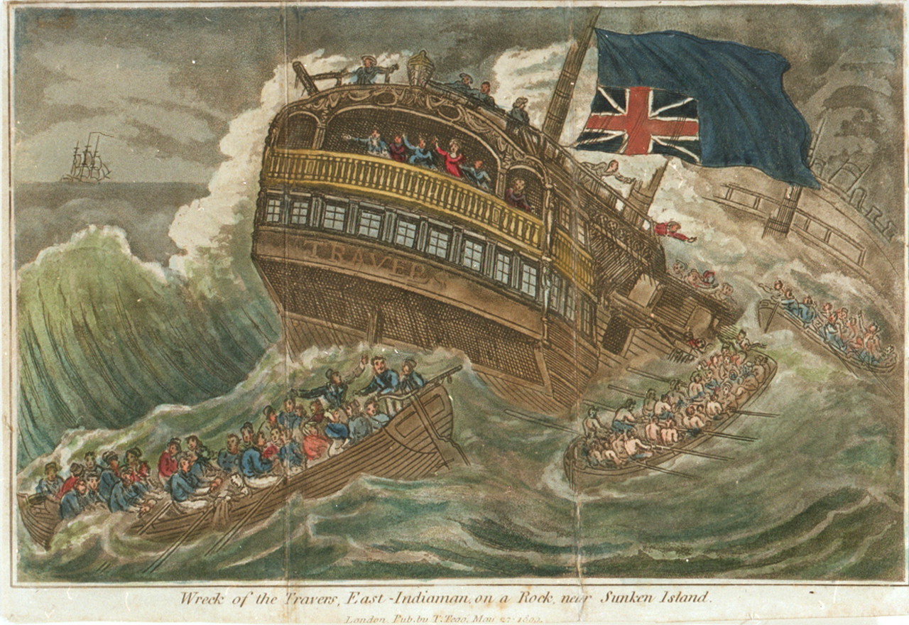 Wreck of the Travers, East-Indiaman, on a Rock near Sunken Island Technique includes etching.; Hand-coloured.